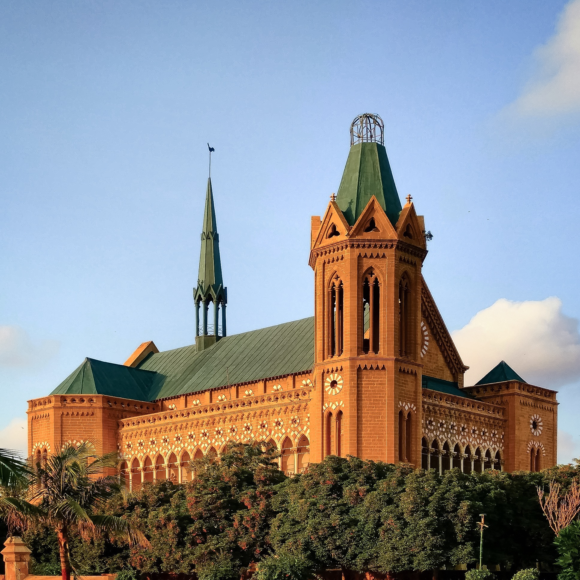 Frere Hall This is a photo of a monument in Pakistan identified as the SD-34